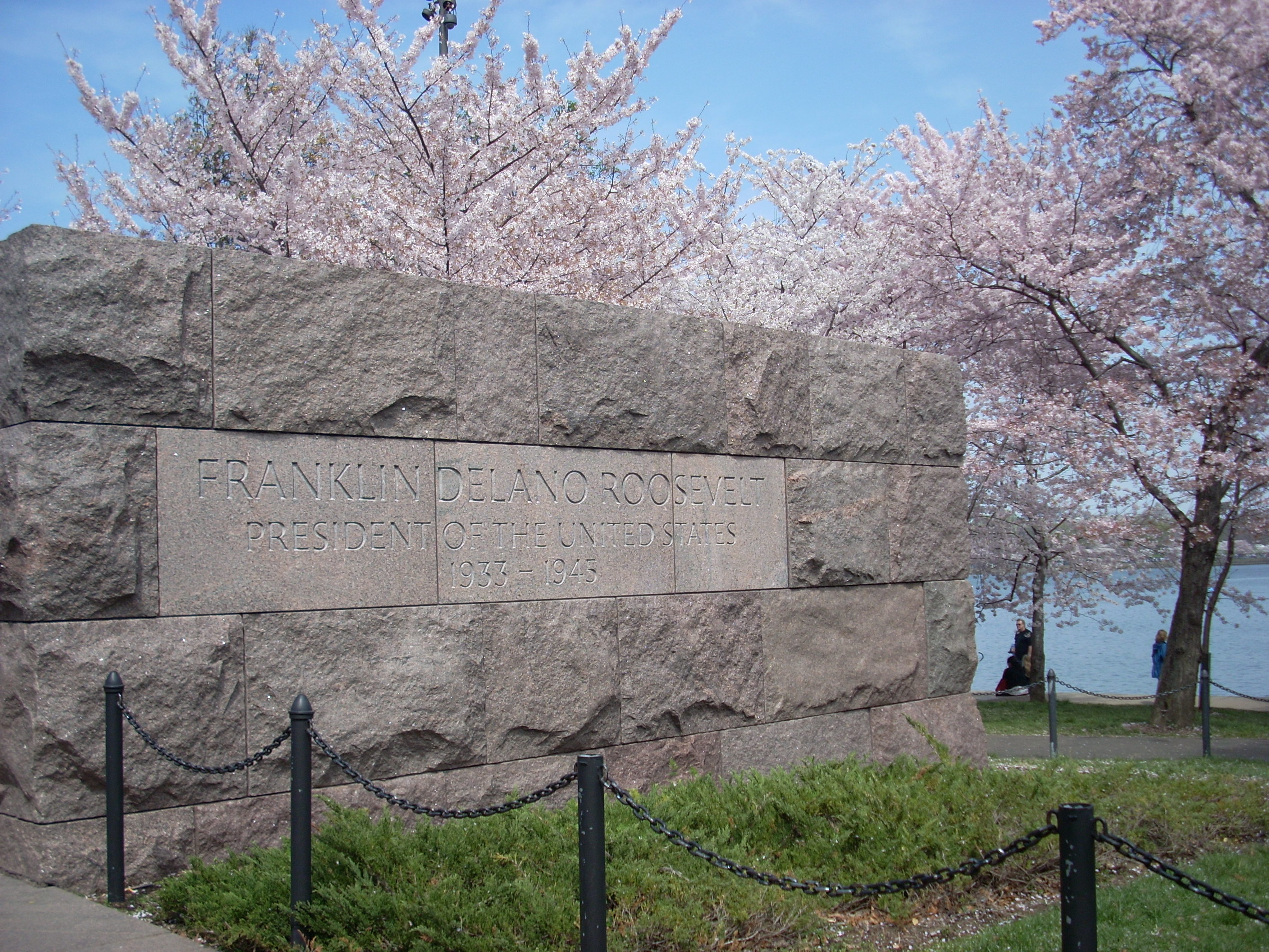 Some of the cherry trees around the FDR Memorial